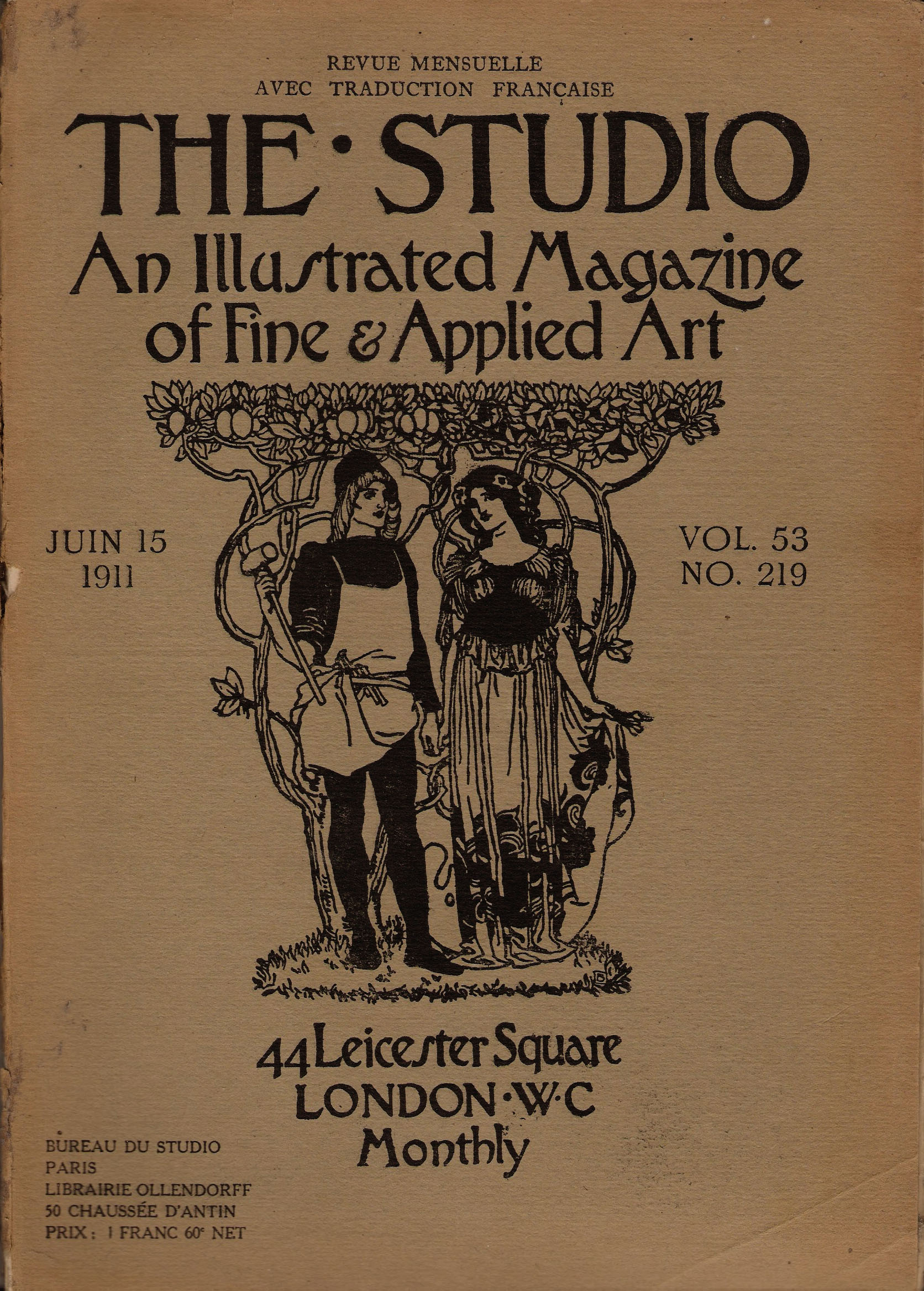 Cover of The Studio, vol. 53 no. 219, June 1911, Paris edition with cover and spine printed in French, and French-language insert with translation of the article text